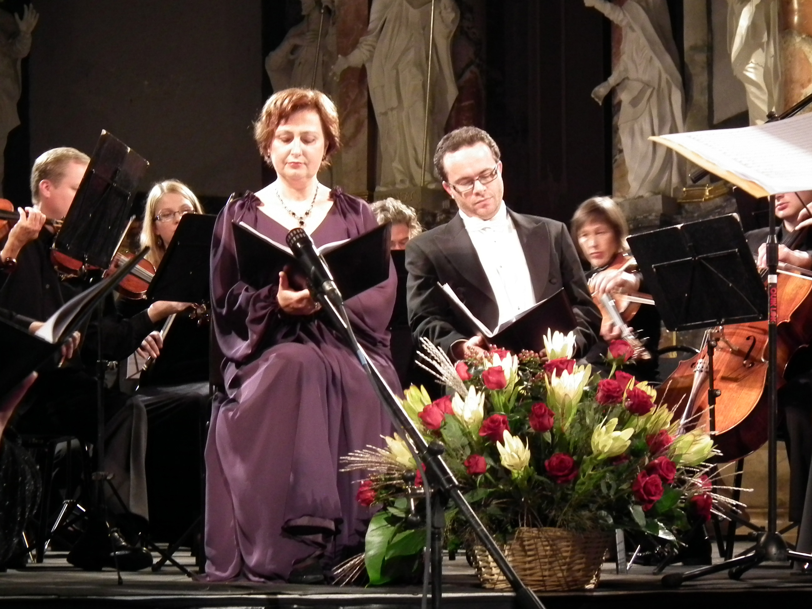 Soprano Asta Kriksciunaite and baritone Stein Skjervold